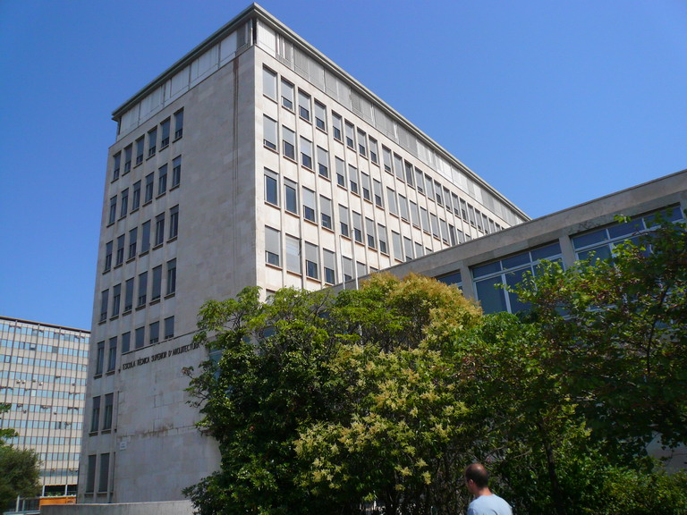 Escola_Tècnica_Superior_d'Arquitectura_de_Barcelona